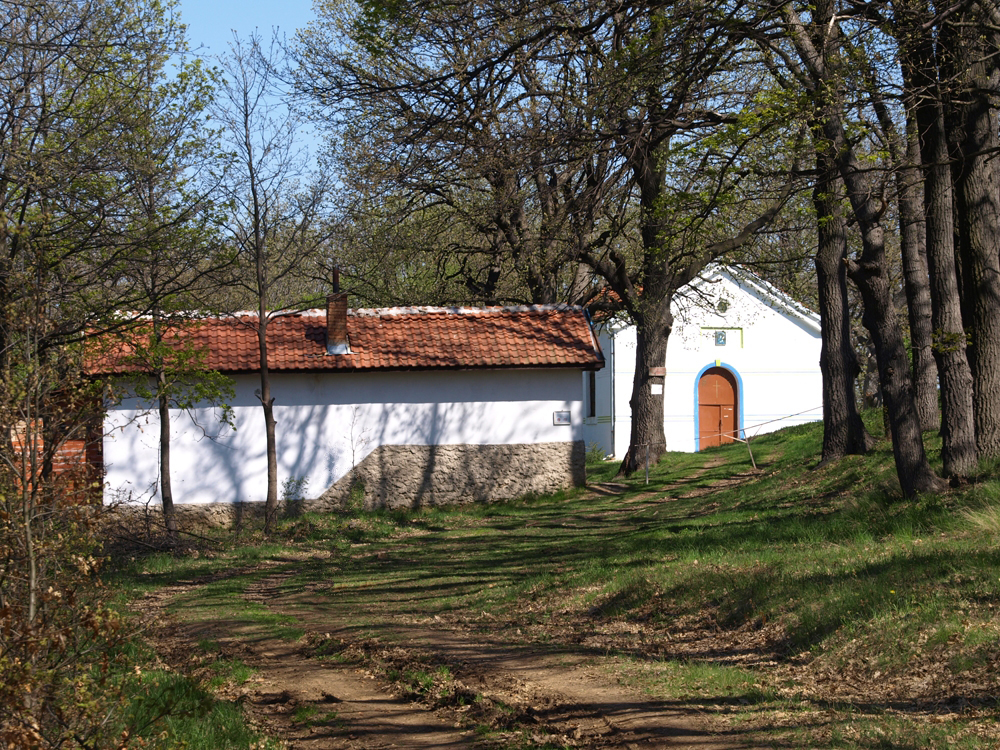 St.Petka Monastery of Vakarel, Bulgaria